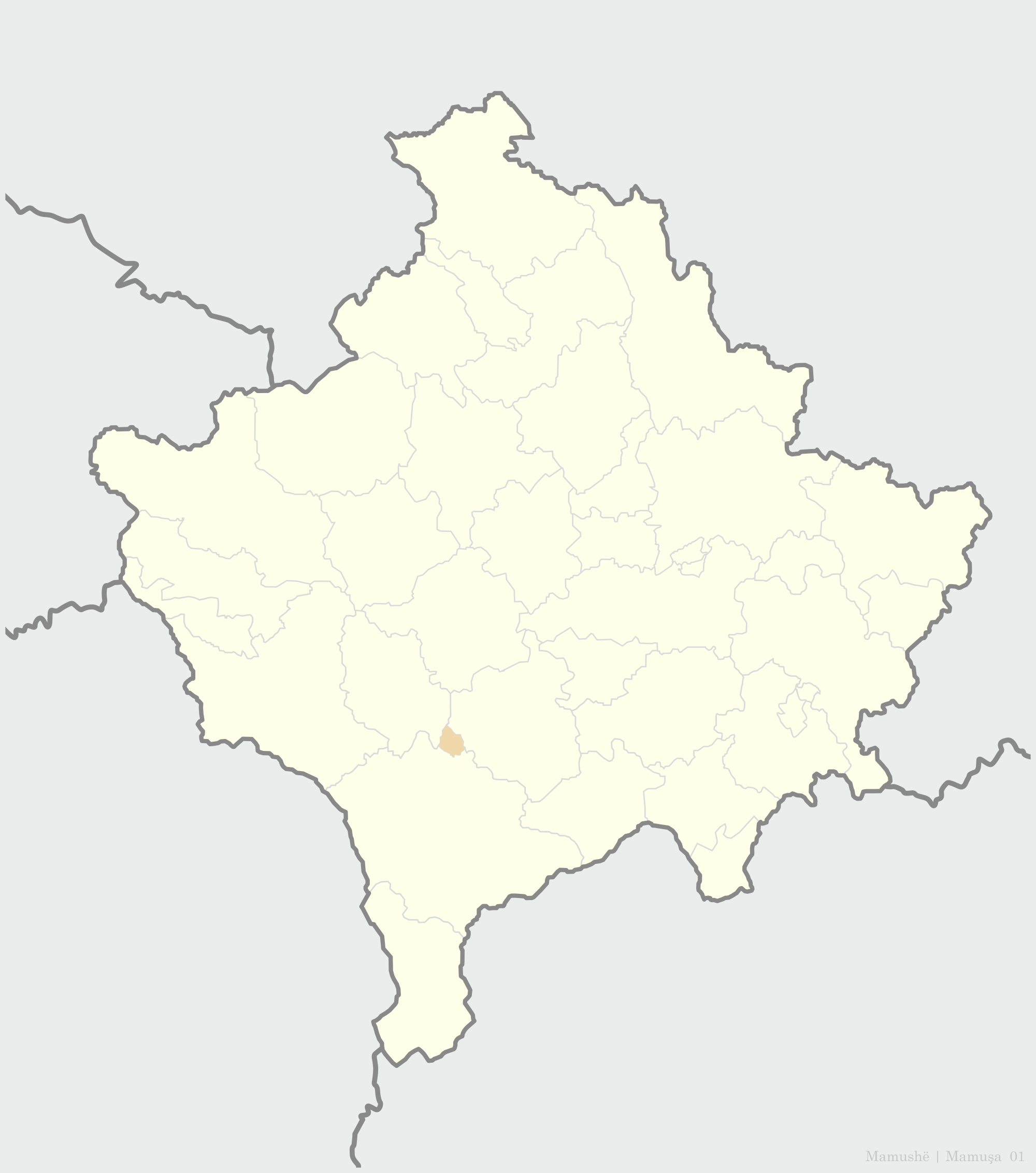 Municipality of Mamusa map